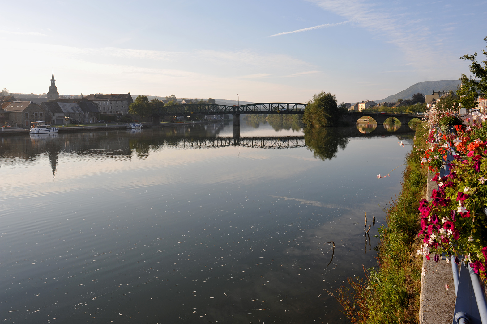 Pont sur la Meuse, between Vireux-Molhain and Vireux-Wallerand; Ardennes, France.